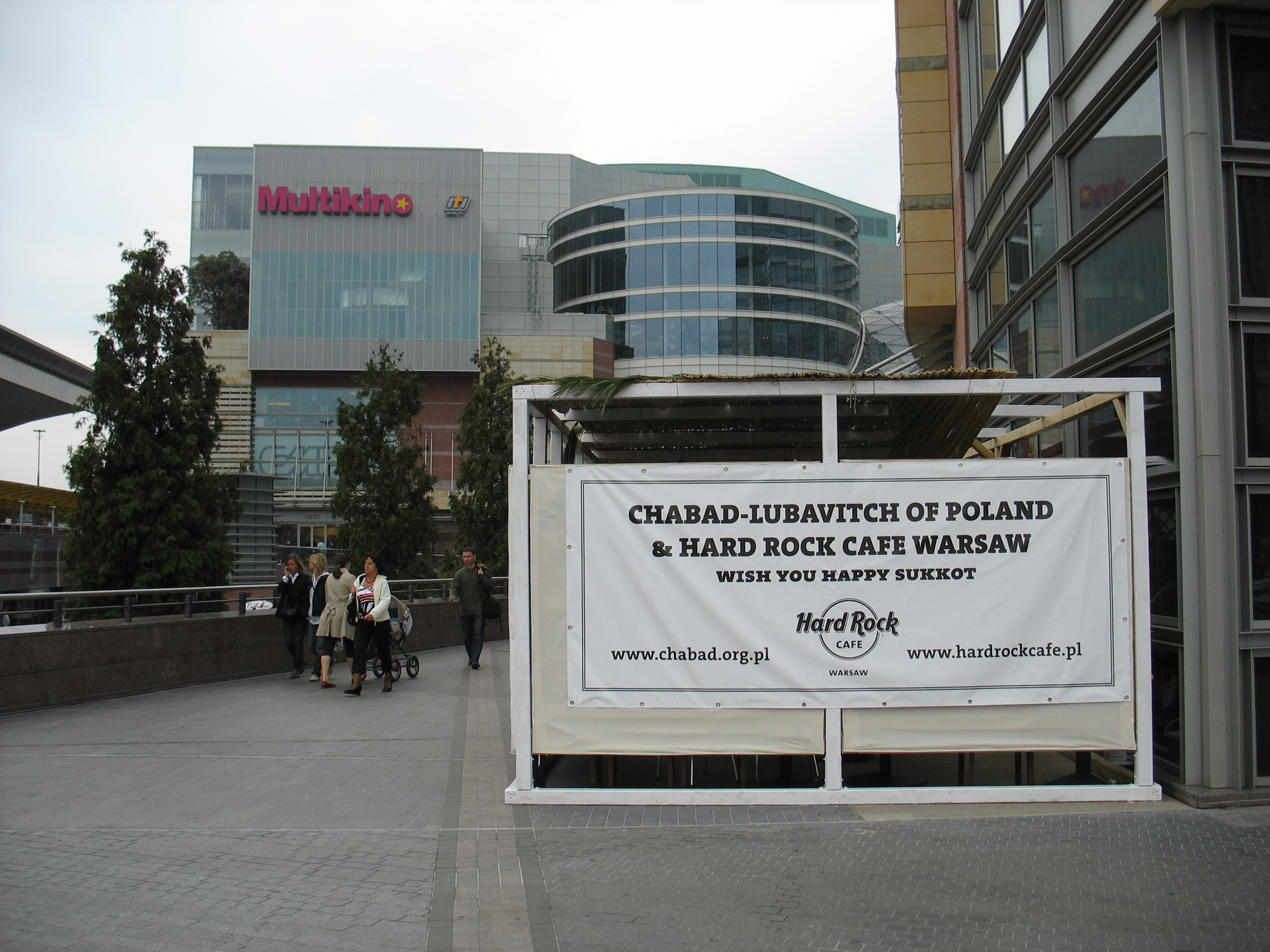 Sukkot with Chabad-Lubavitch in Warsaw - banner, Multikino